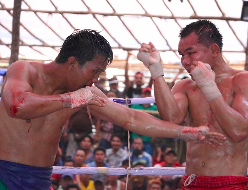 Thailand fighter versus Myanmar fighter Soe Lin Oo in Ye city, Myanmar